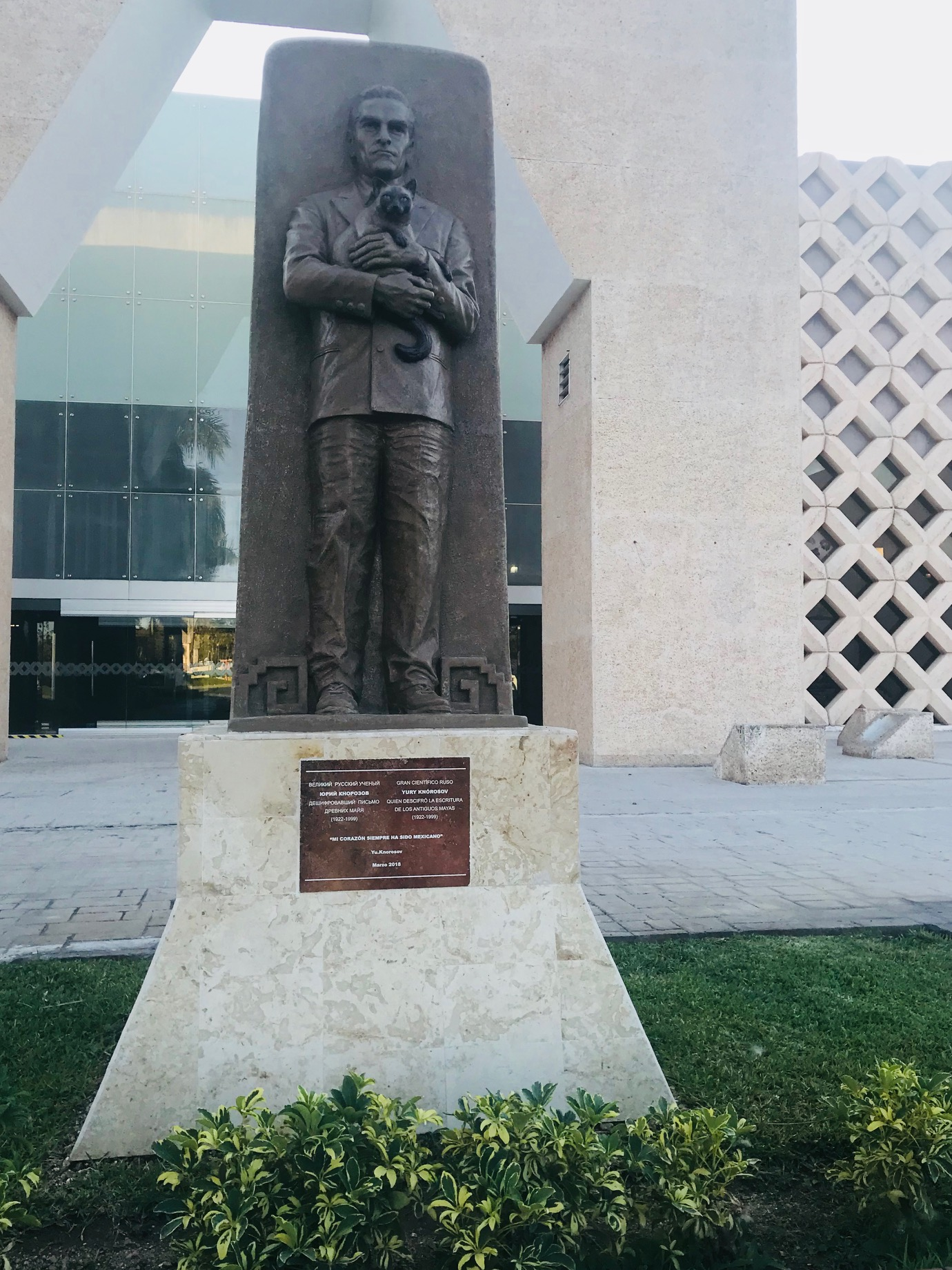 Monument to Yuri Knorosov in Mérida, Yucatán, Mexico. Gift from the Russian people to the Mayan people of Yucatán in México. 2018